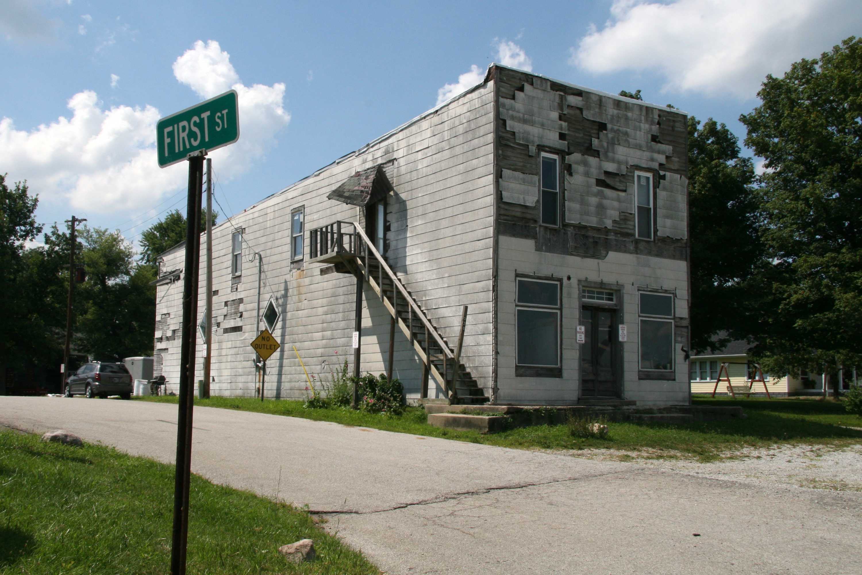 A vacant store building at the corner of First Street and U.S. Route 421 in the small town of Rosston, Indiana. Photo looks northwest.